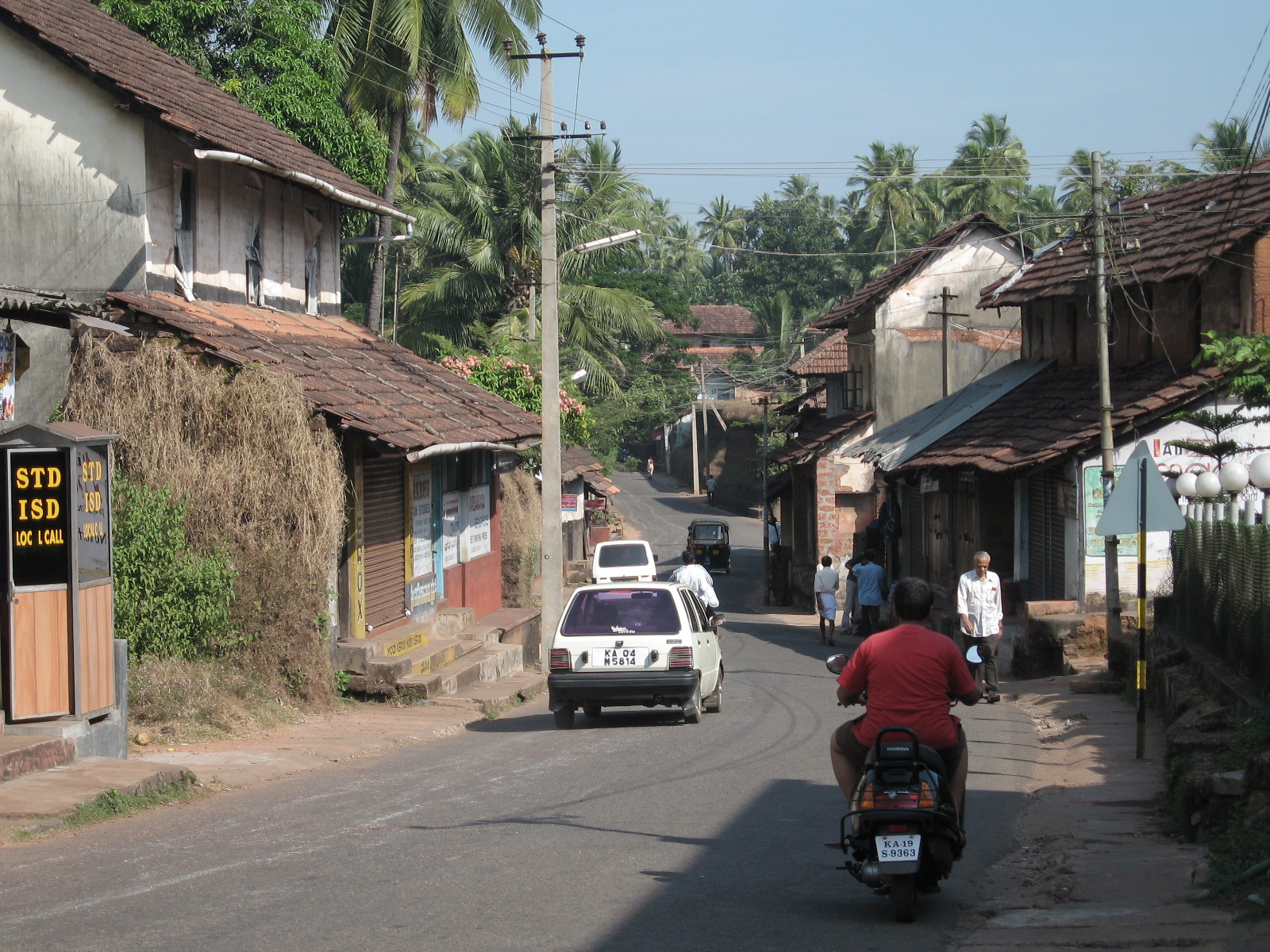 A typical street in Malnad area. Picture was taken in Chikkamagalooru.